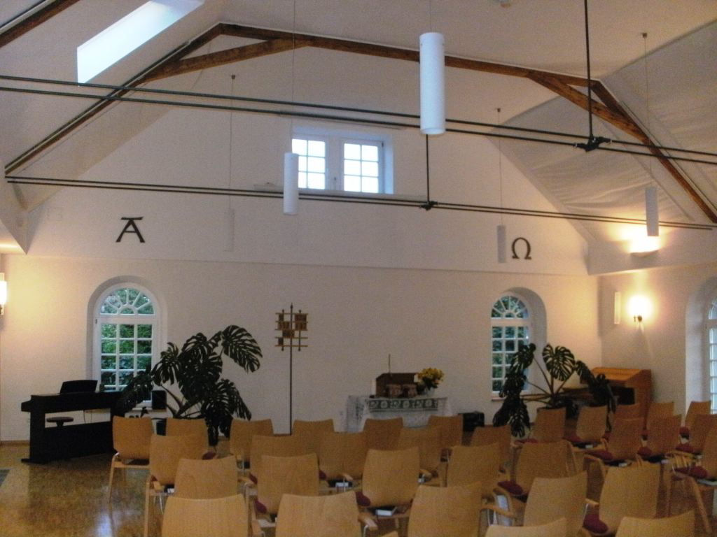 Mennonite church Friedelsheim, Rhineland-Palatinate, Germany